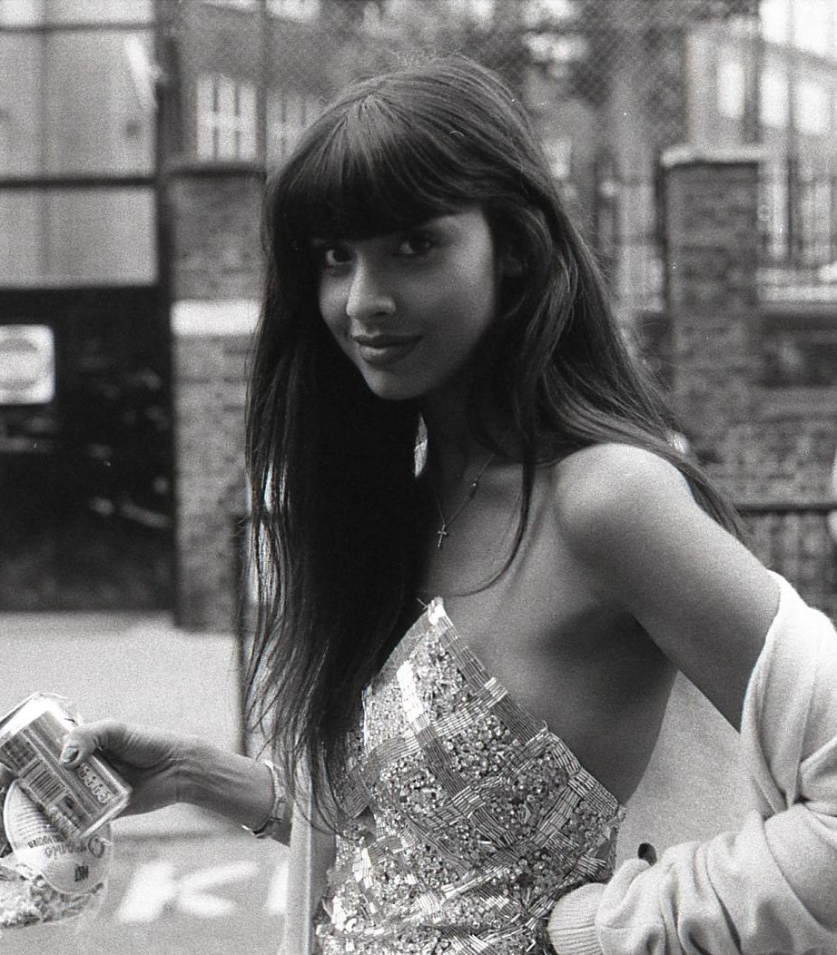 Jameela Jamil at London fashion week, 9 December 2009